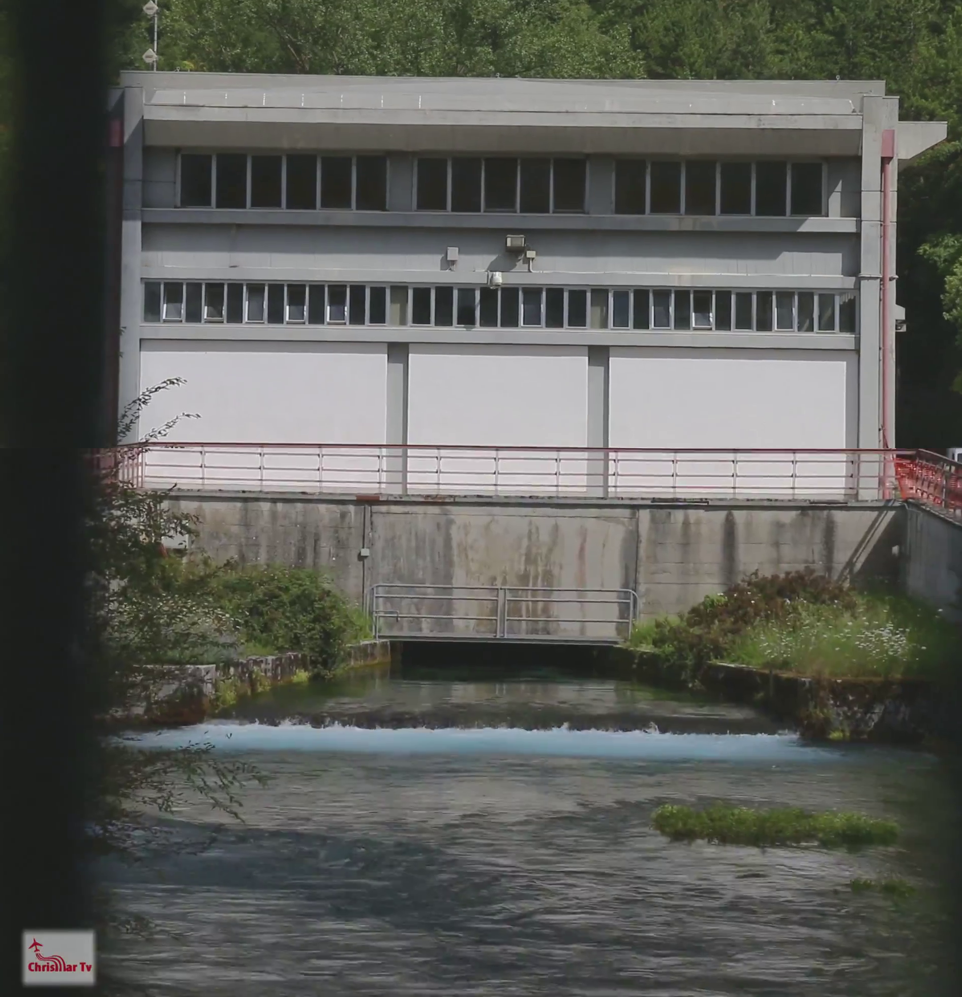 The Peschiera river springs, in the municipalty of Castel Sant'Angelo in the province of Rieti (Lazio, Italy) and the water drawing works, part of the Peschiera aqueduct which supplies the city of Rome